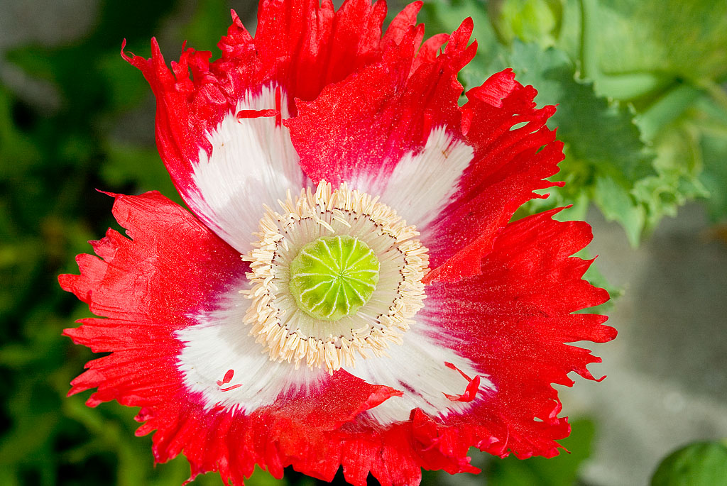 Papaver somniferum (Laciniatum Group) 'Danebrog' (syn. 'Danish Flag'). Planted this poppy in my front yard.